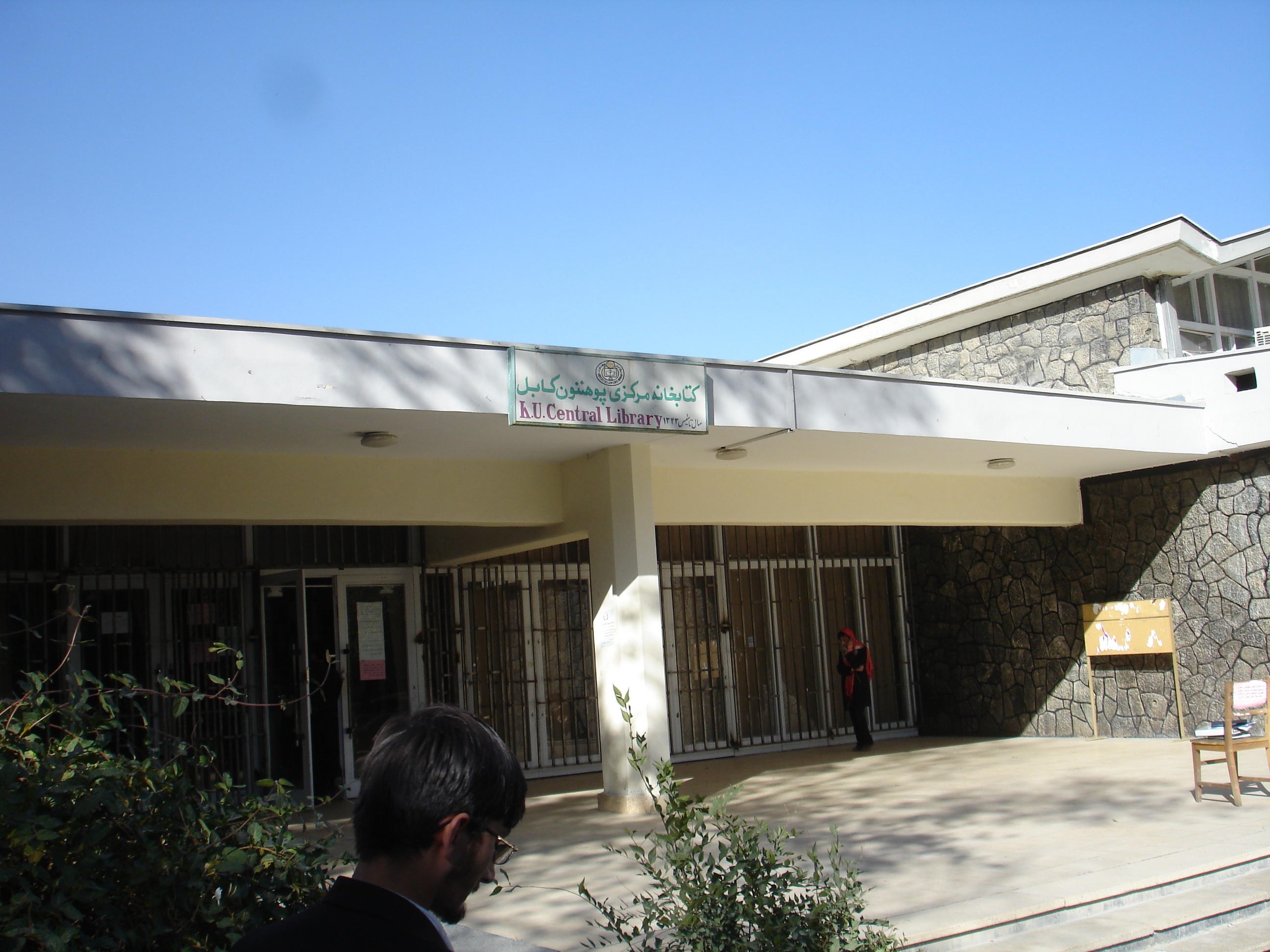 Kabul University Central Library